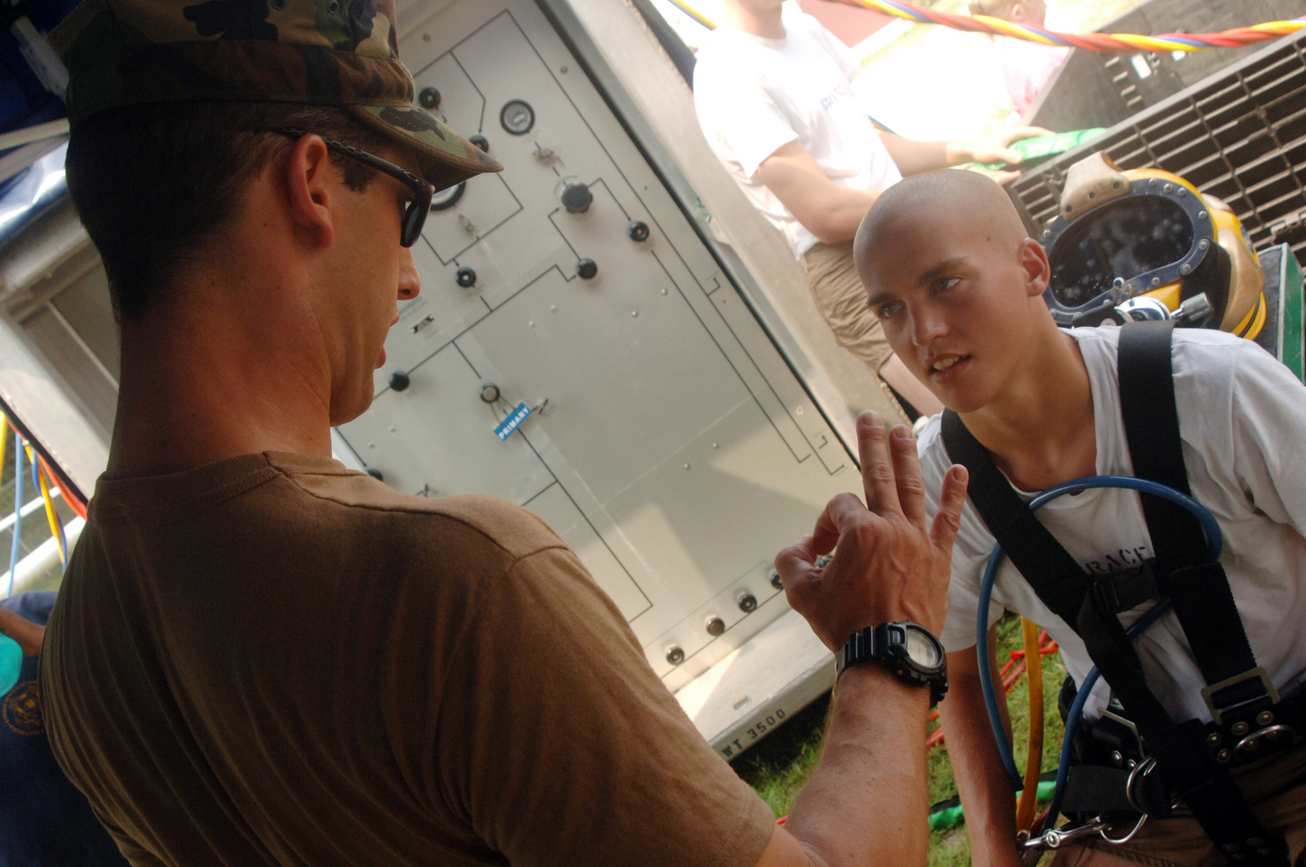 060727-N-5555T-006 Norfolk, Va. (July 27, 2006) – Chief Navy Diver Jeffery Cory demonstrates the proper way of giving the "A-okay" signal to a U.S. Naval Sea Cadet prior to a 10 foot dive with Naval Divers and Explosive Ordnance Disposal (EOD) Technicians From Mobile Salvage and Diving Unit Two (MSDU-2). The training is a three-week long course taught by EOD/MDSU-2. The course not only educates the sea cadets about Naval Special Warfare community but also emphasizes on teamwork and individual accomplishment in the team environment. U.S. Navy photo by Mass Communication Specialist 2nd Class Class Justin K. Thomas (RELEASED)